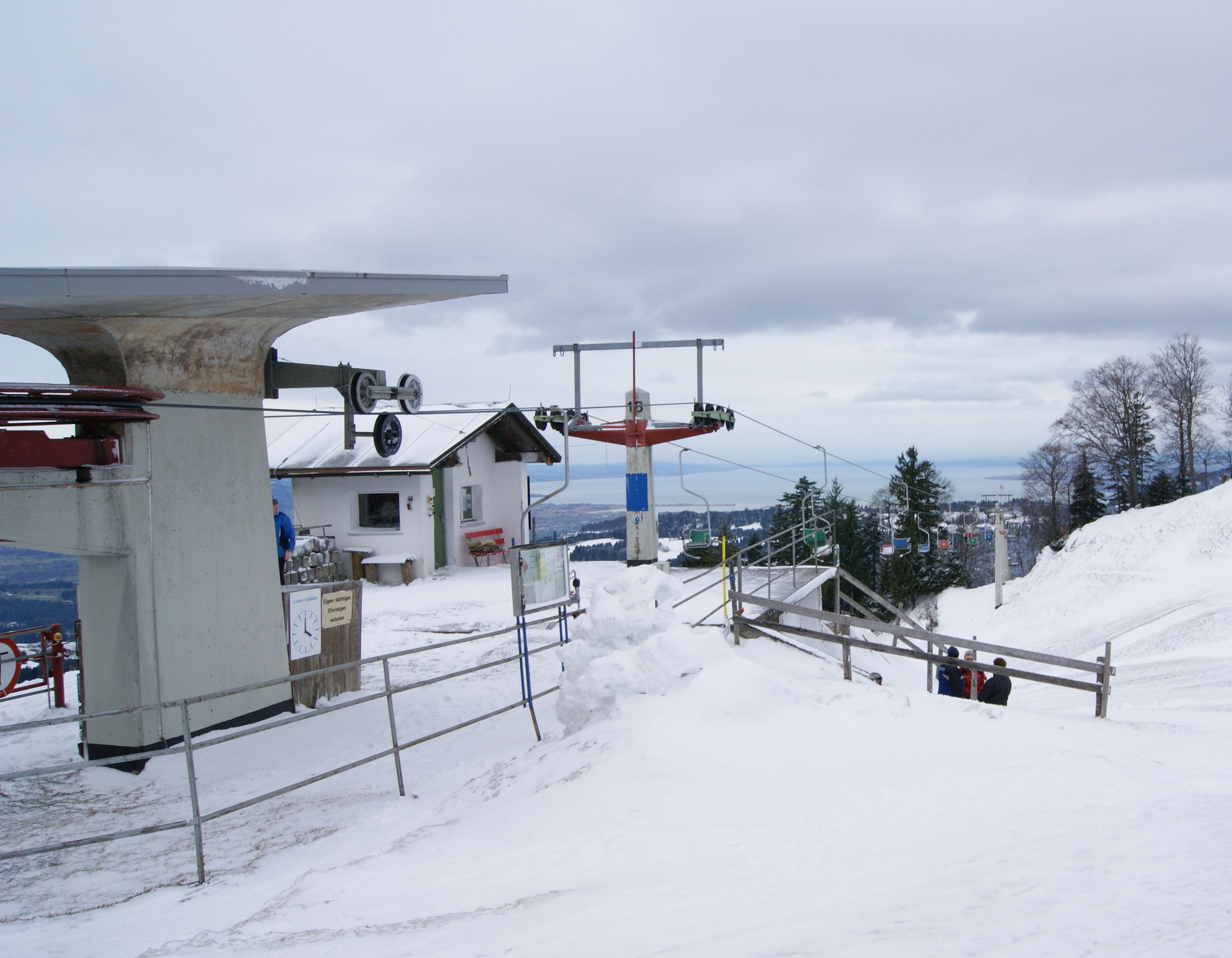 Mountain-Station of the 1-Person-Chairlift (fixed grip) up to the "Brueggelekopf" (mountain) in Alberschwende (1967-2018). In the background the Lake of Constance.